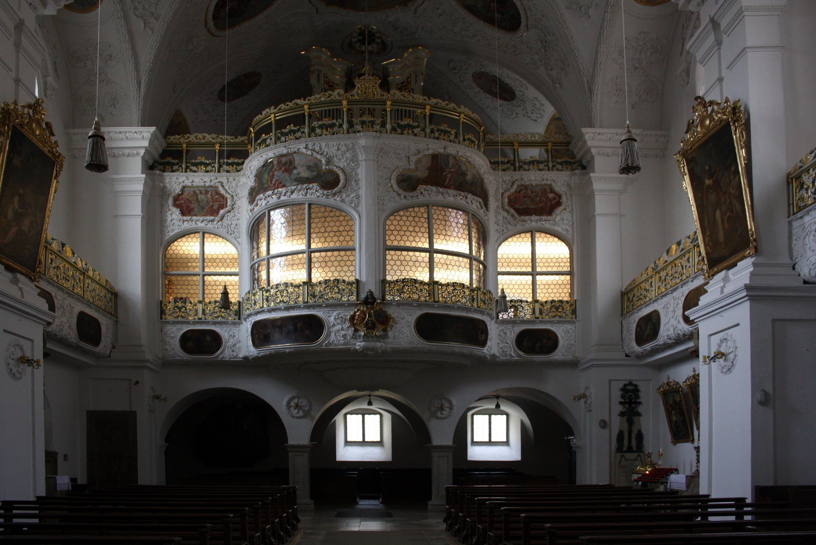 Nuns Choir of St. Walburg in Eichsätt.